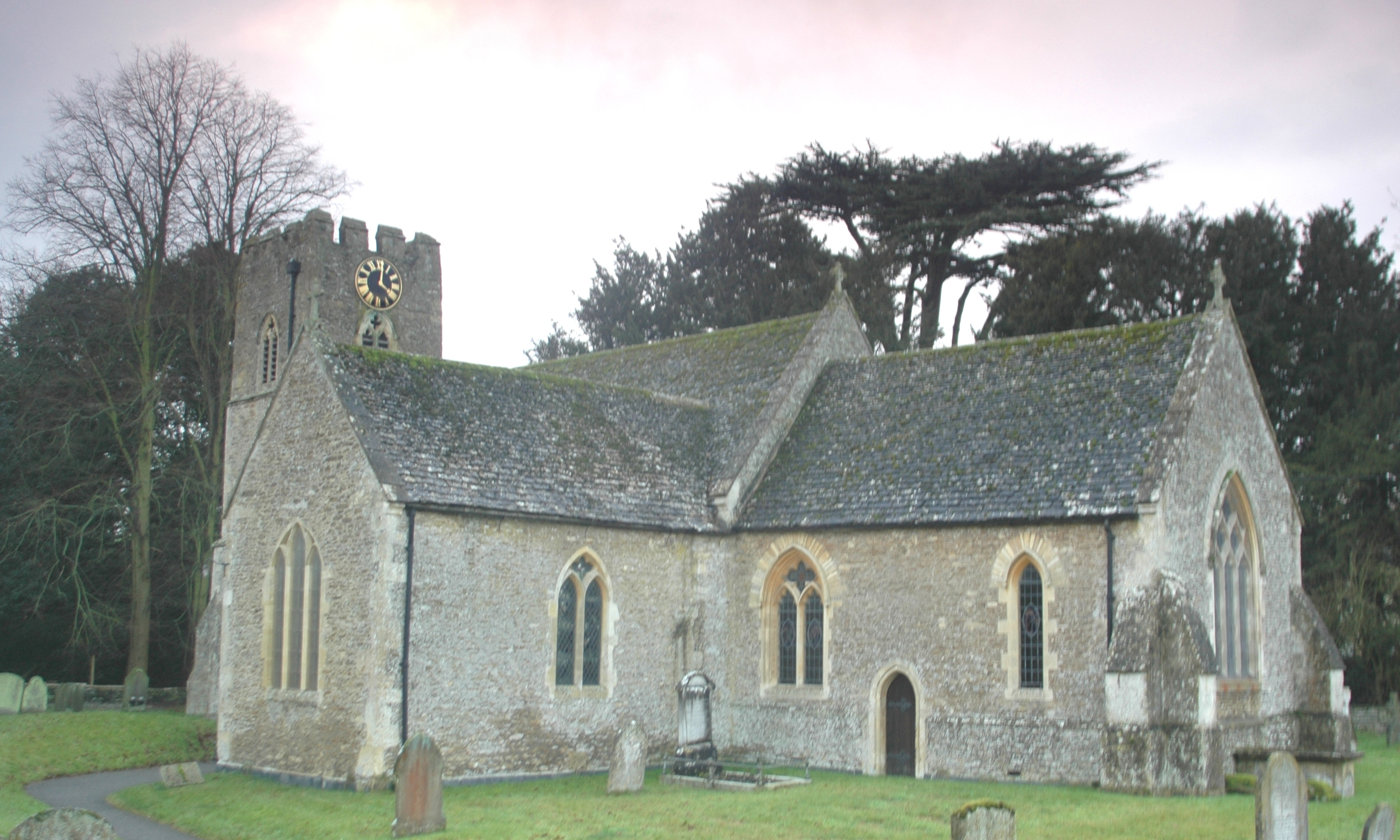 Church of England parish church of St. Margaret of Antioch, Hinton Waldrist, Vale of White Horse, Oxfordshire (formerly Berkshire).